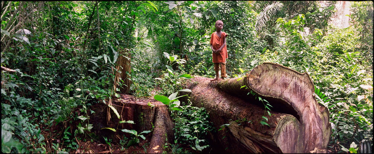 Baka Boy, pigmee boy in the forest in Cameroon